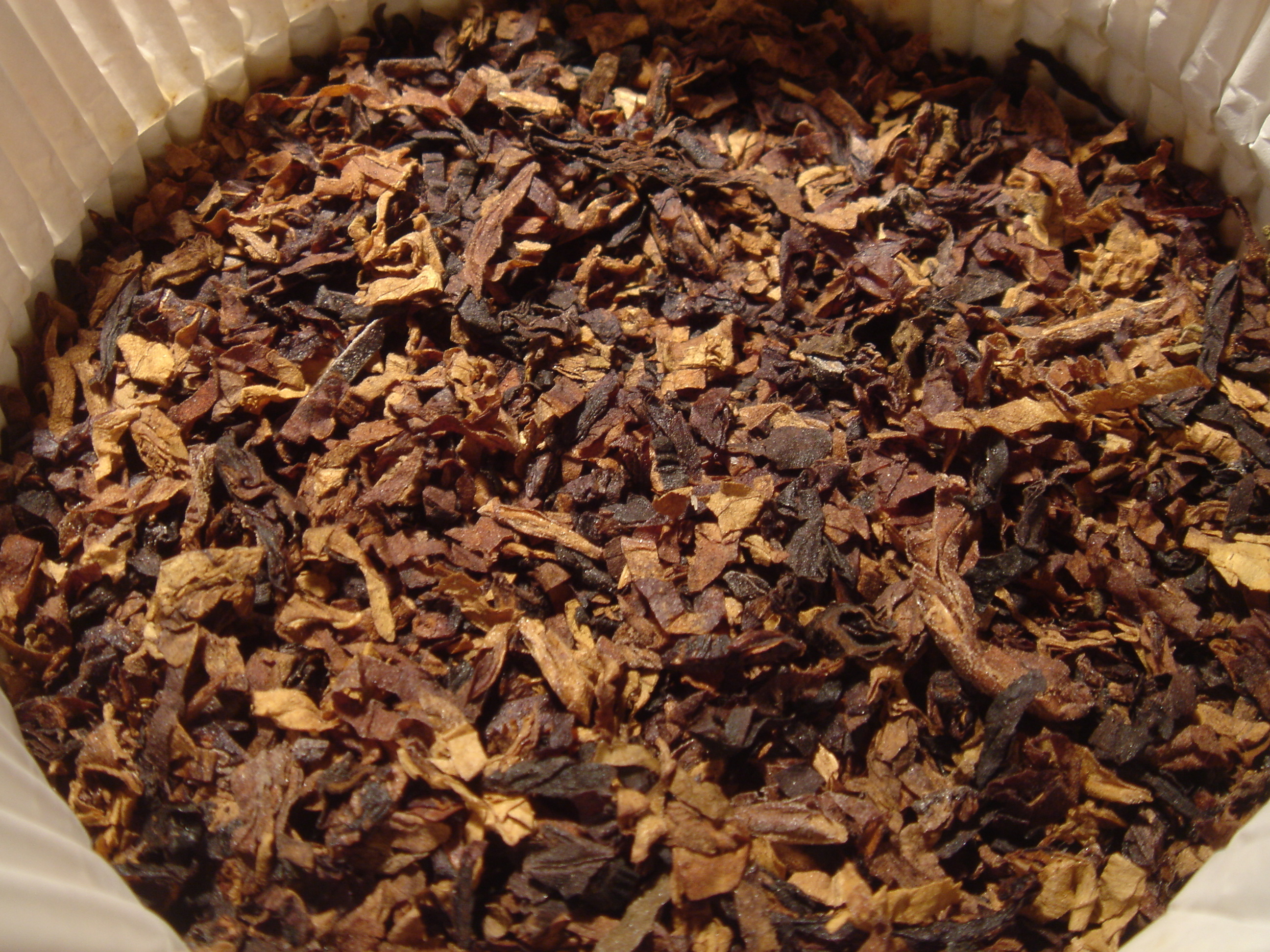 Dunhill Early Morning Pipe Tobacco, 1990's Murray